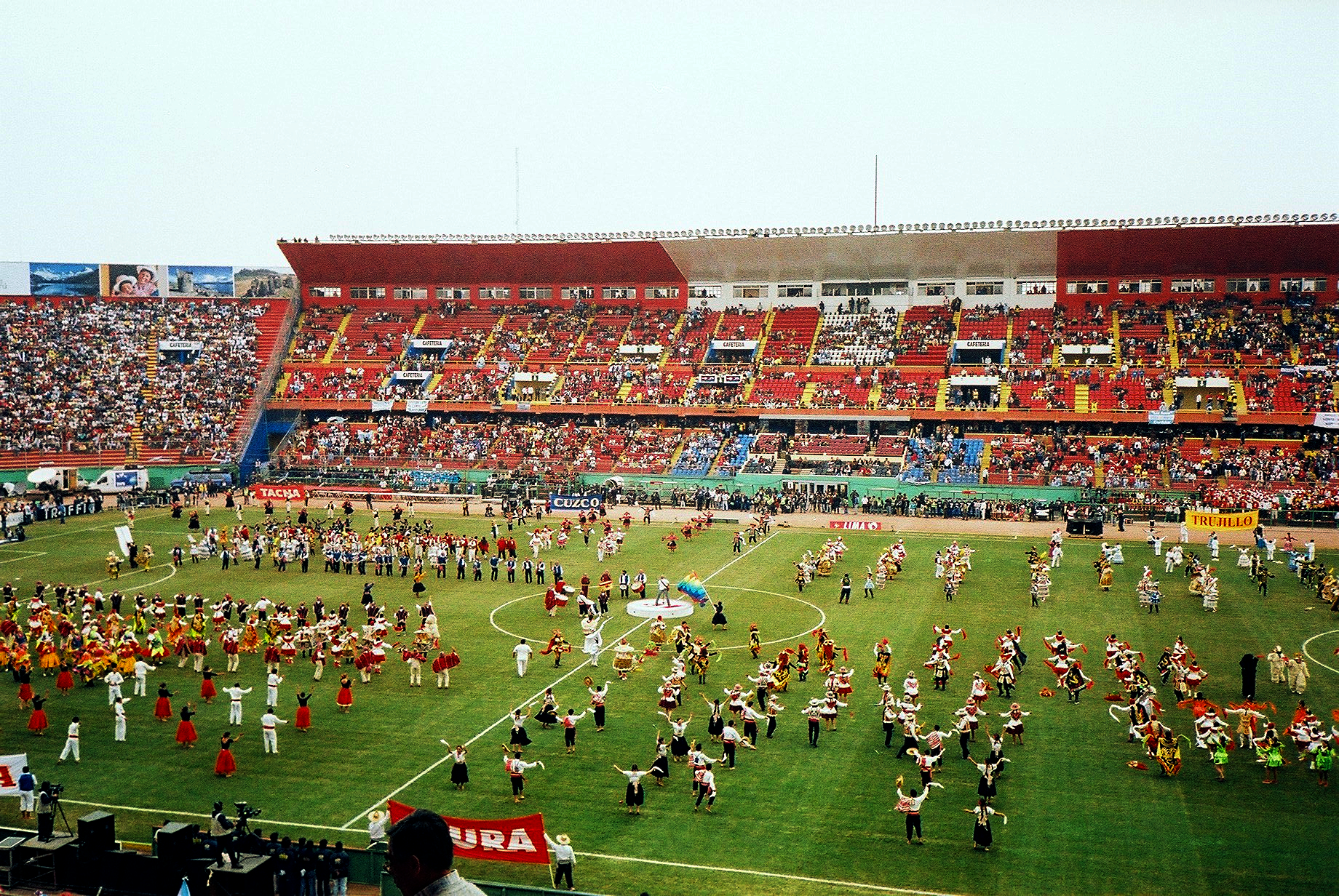 Estadio Nacional del Perú, Lima. Final of the Copa América 2004. July 25, 15:00. Brazil x Argentina 2-2, Penalties: 4-2